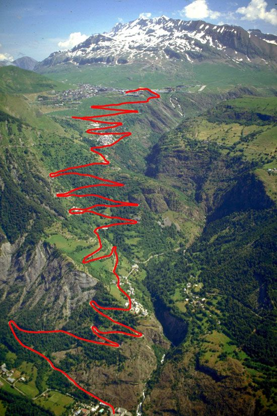 View of the L'alpe d'Huez serpentines.